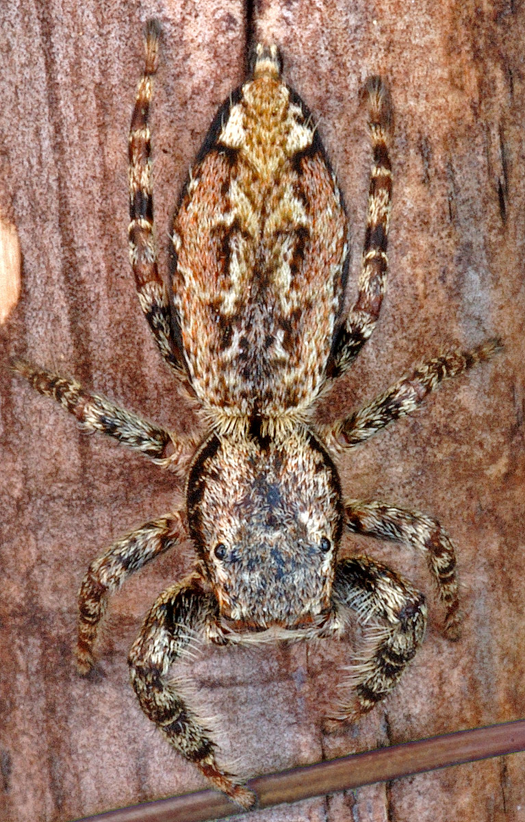 This image shows an about 10 mm large Marpissa muscosa jumping spider.